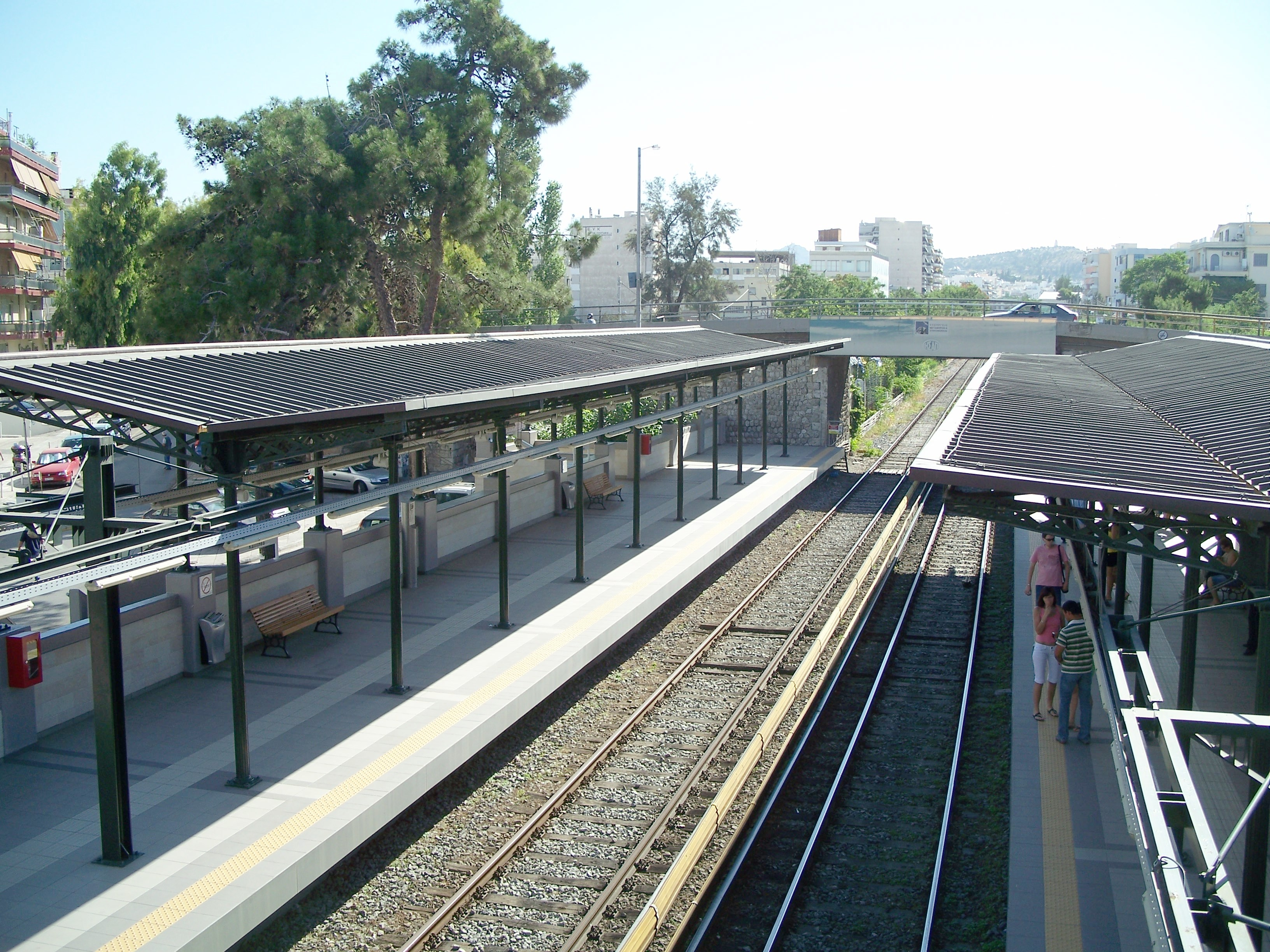 Kallithea station of Athens Metro system.